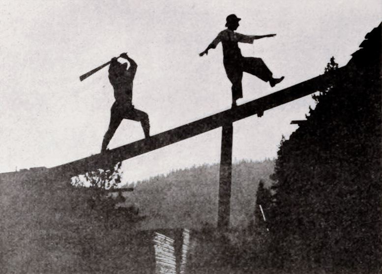 Still from the American comedy short film The Sawmill (1922) with Larry Semon, on page 70 of the December 3, 1921 Exhibitors Herald.